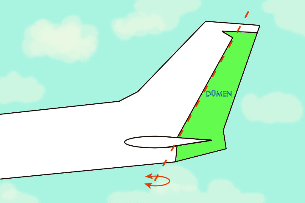 Rudder (aviation)